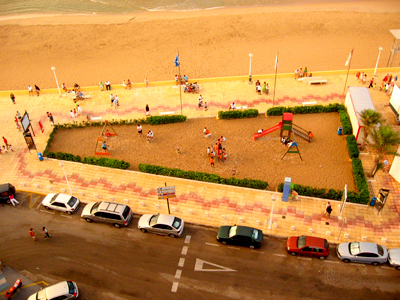 Playground in Bellreguard (Valencia, Spain)